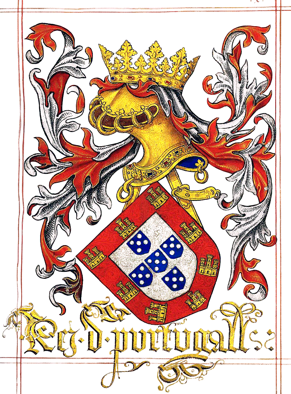 King of Portuga